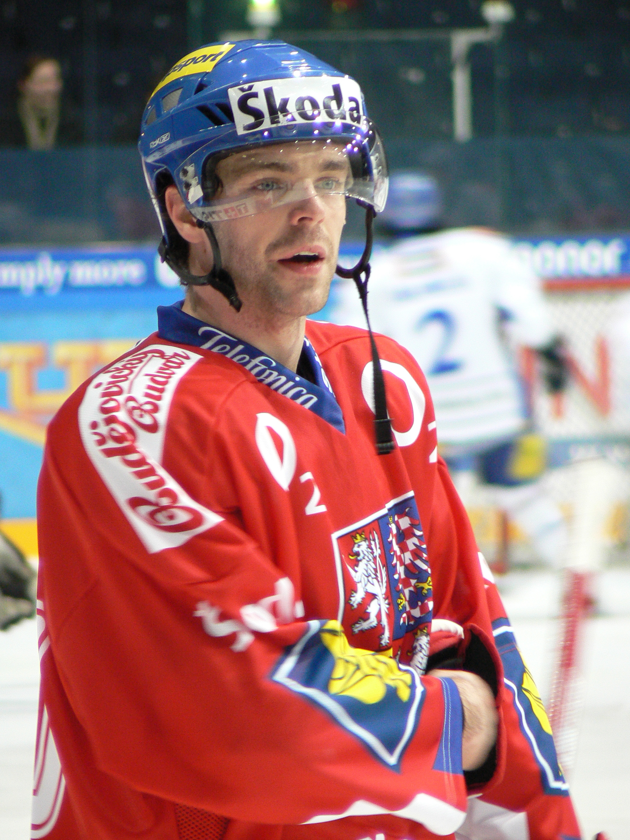 Czech ice hockey forward Jakub Klepiš playing for his national team in an LG Hockey Games / Euro Hockey Tour match against Finland in Tampere, Finland, February 2008